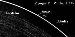 Image of Voyager 2 from 21 January 1986